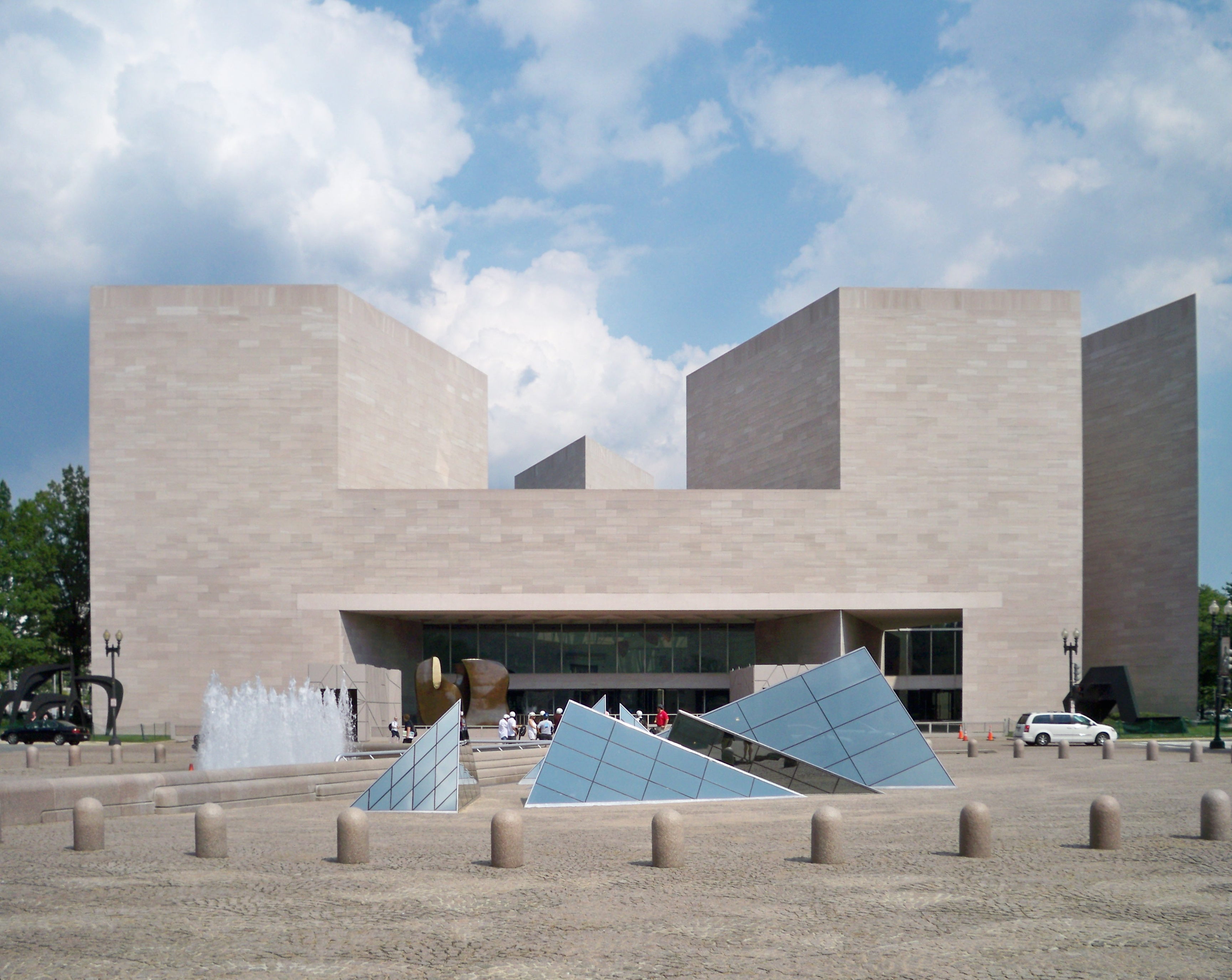 Photograph of the East Building of the National Gallery of Art designed by I. M. Pei.